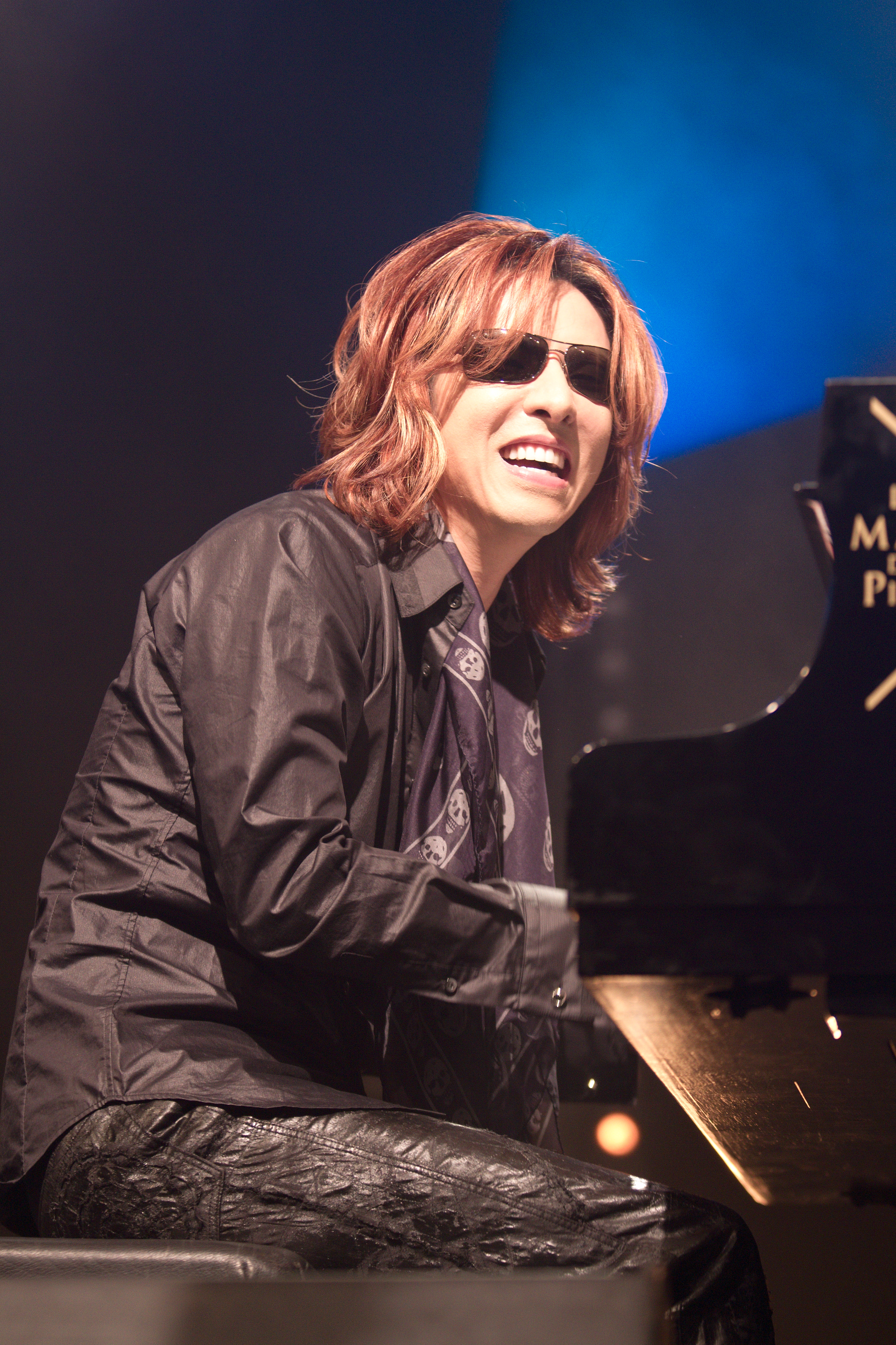 Toshi and Yoshiki, from X Japan, duets at Japan Expo 2010 (Paris, France).